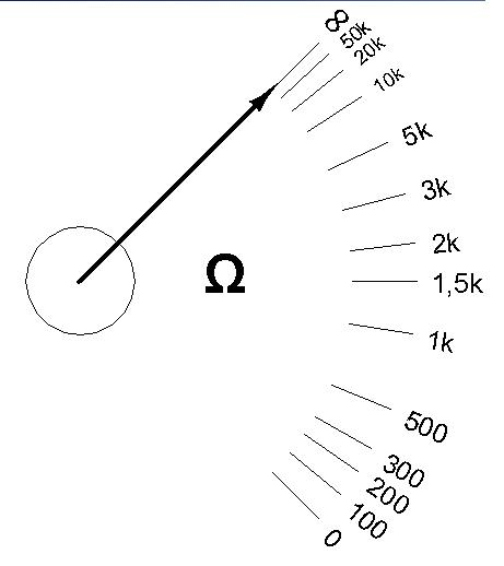 typical nonlinear ohmmeter scale